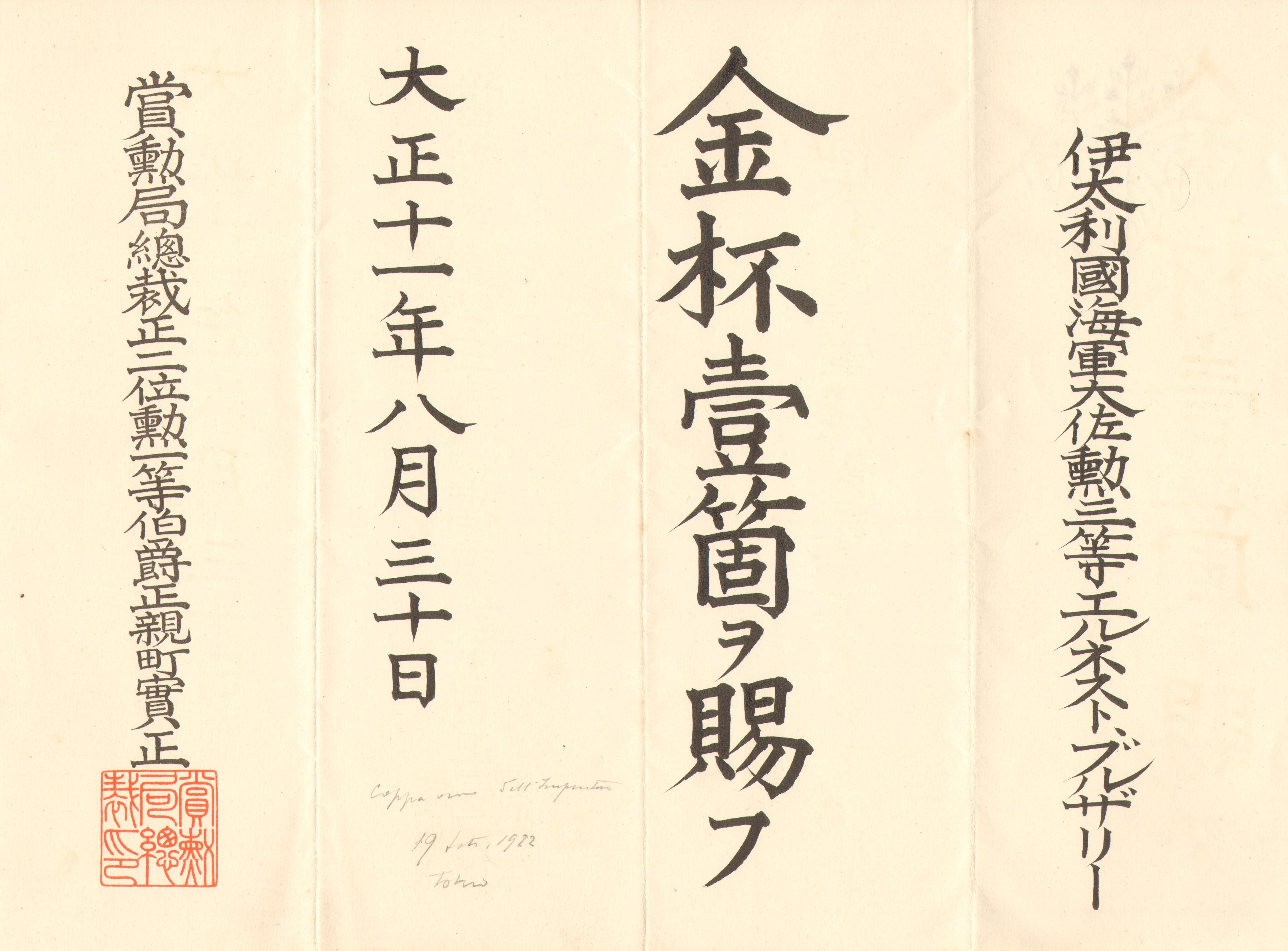 "To Captain Ernesto Burzagli of Italian Navy: One gold cup is hereby presented. August 30, 1922 Count Ohgimachi, President of Decorations Bureau [seal]" It's not possible to phonetically read Count Ohgimachi's first name. (The characters that represent his first name could be pronounced several ways. Also note that ranks and honors of Capt. Burzagli and Count Ohgimachi are also on the document but I could not locate offcial translation. The literal translation of Capt. Burzagli's honor would be "the third order". Likewise, Count Ohgimachi seems to carry the rank and honor of "right second rank and the Grand Cordon of the Order" Translated by Gewurz55 from Japanese Wikipedia.